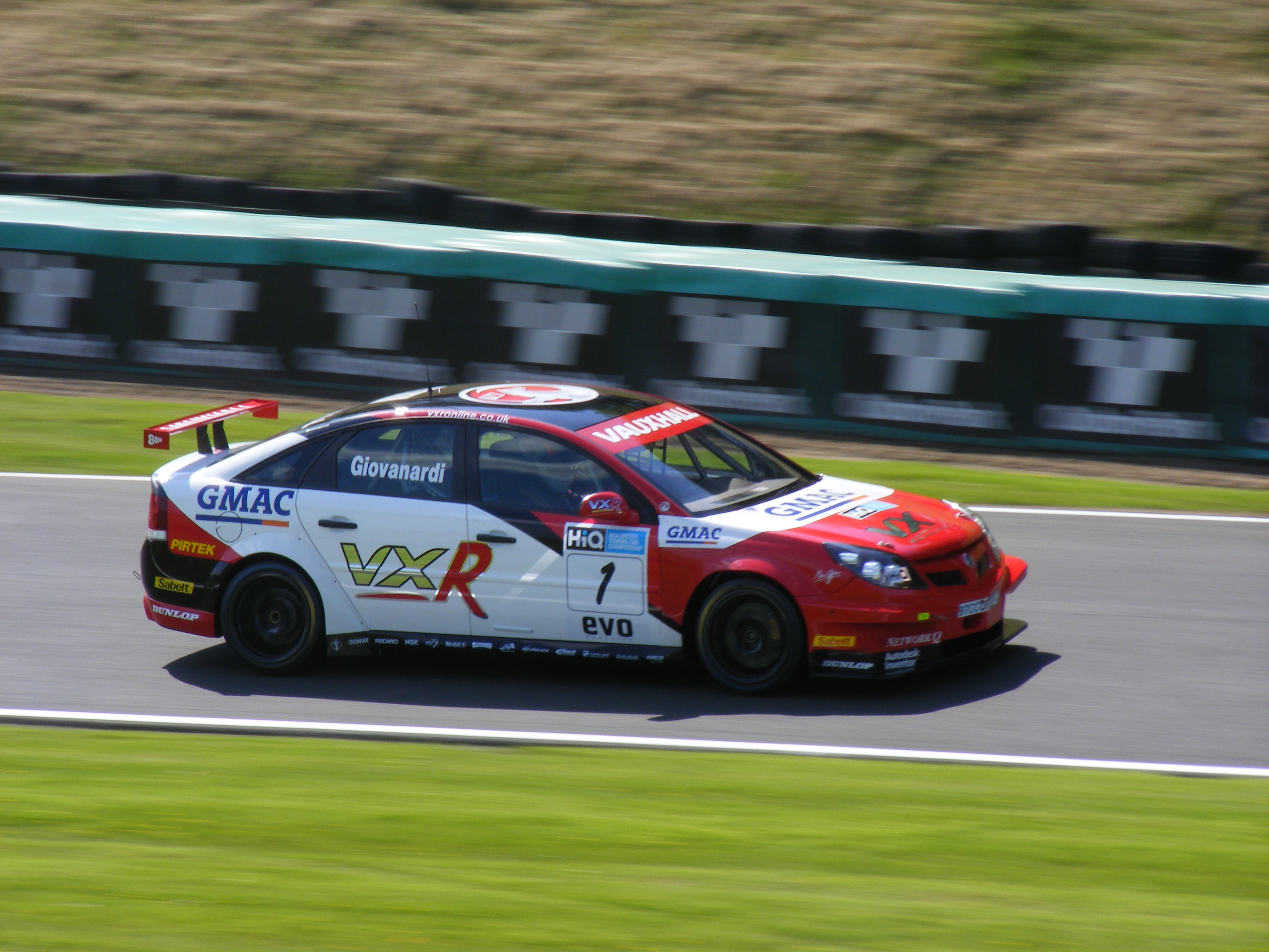 Fabrizio Giovanardi exits knickerbrook during a qualifying session at Oulton Park.